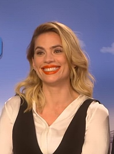 British-American actress Hayley Atwell